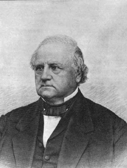 Edward Kent (1802-01-08 – 1877-05-19), 12th and 15th Governor of the U.S. state of Maine